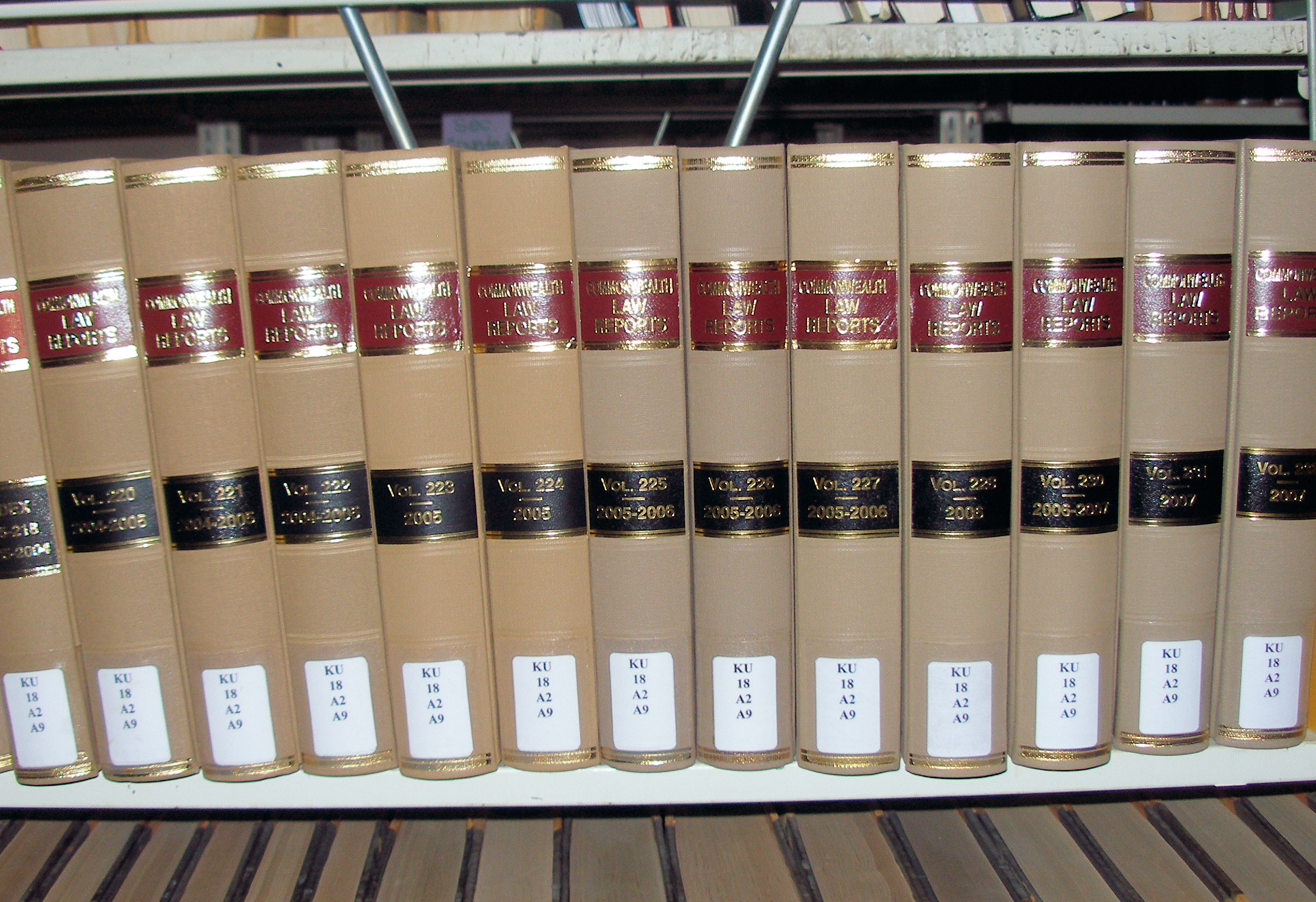 Volumes of the Commonwealth Law Reports on a shelf at the law library of UC Berkeley School of Law.